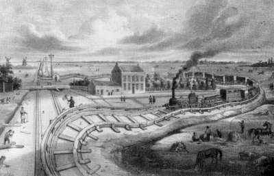 Picture of a very temporary bit of railway, just south of Delft, the Netherlands. This is an "artist's impression" of a diversion on the The Hague-Rotterdam railway, since there was, at the time of completion of the railway, a conflict about the ownership of the land. Picture used in Hollandsche IJzeren Spoorweg-Maatschappij.